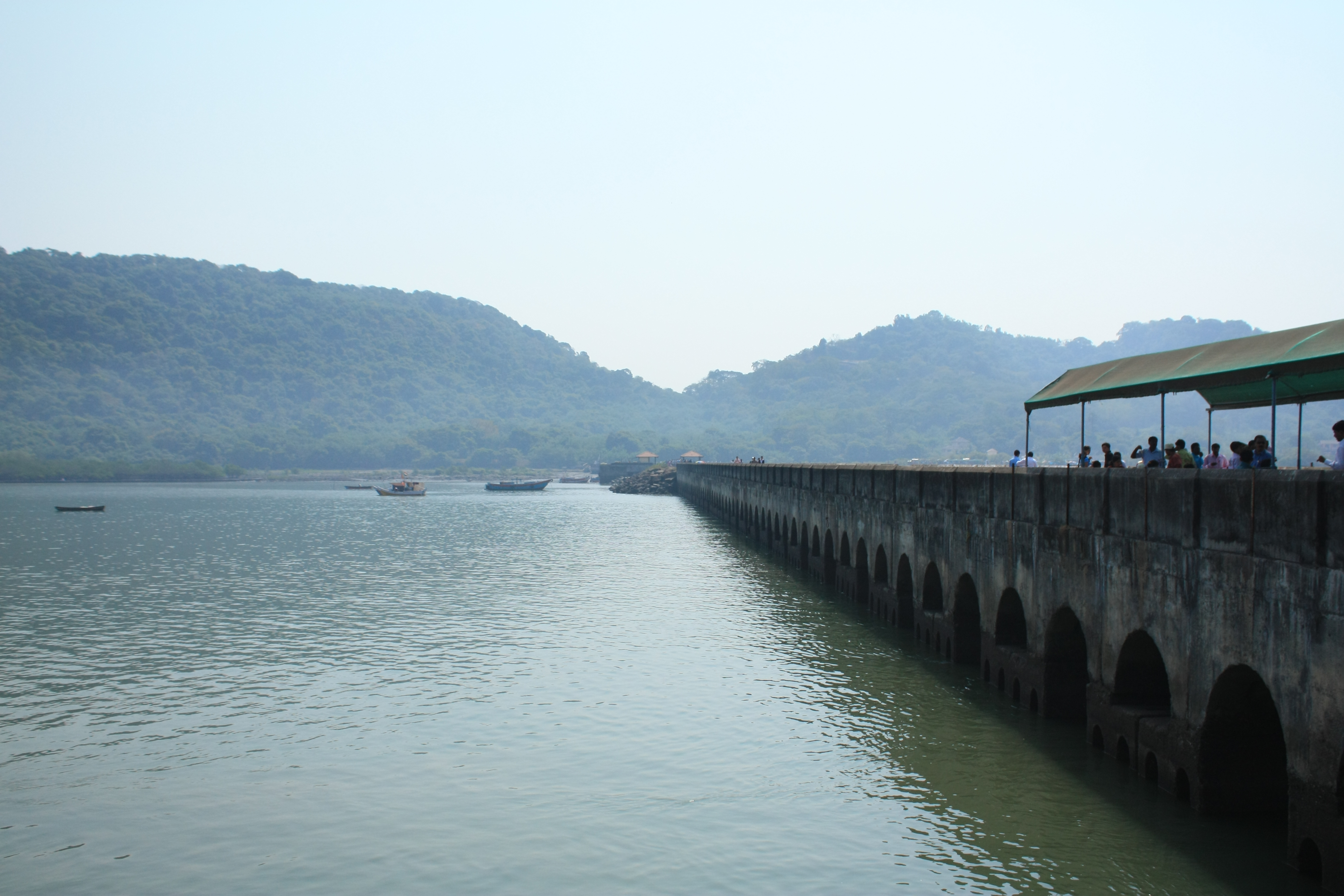 The hills of the Elephanta Islands.